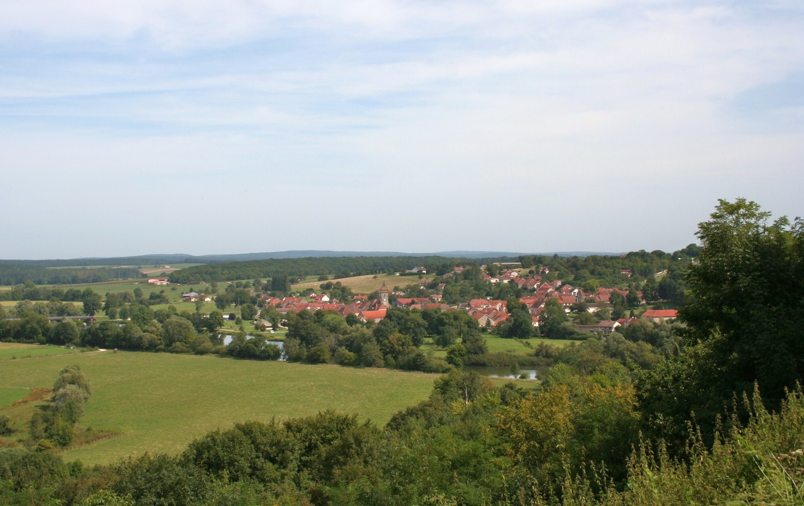 Soing, Haute-Saône, France POV from Charentenay road